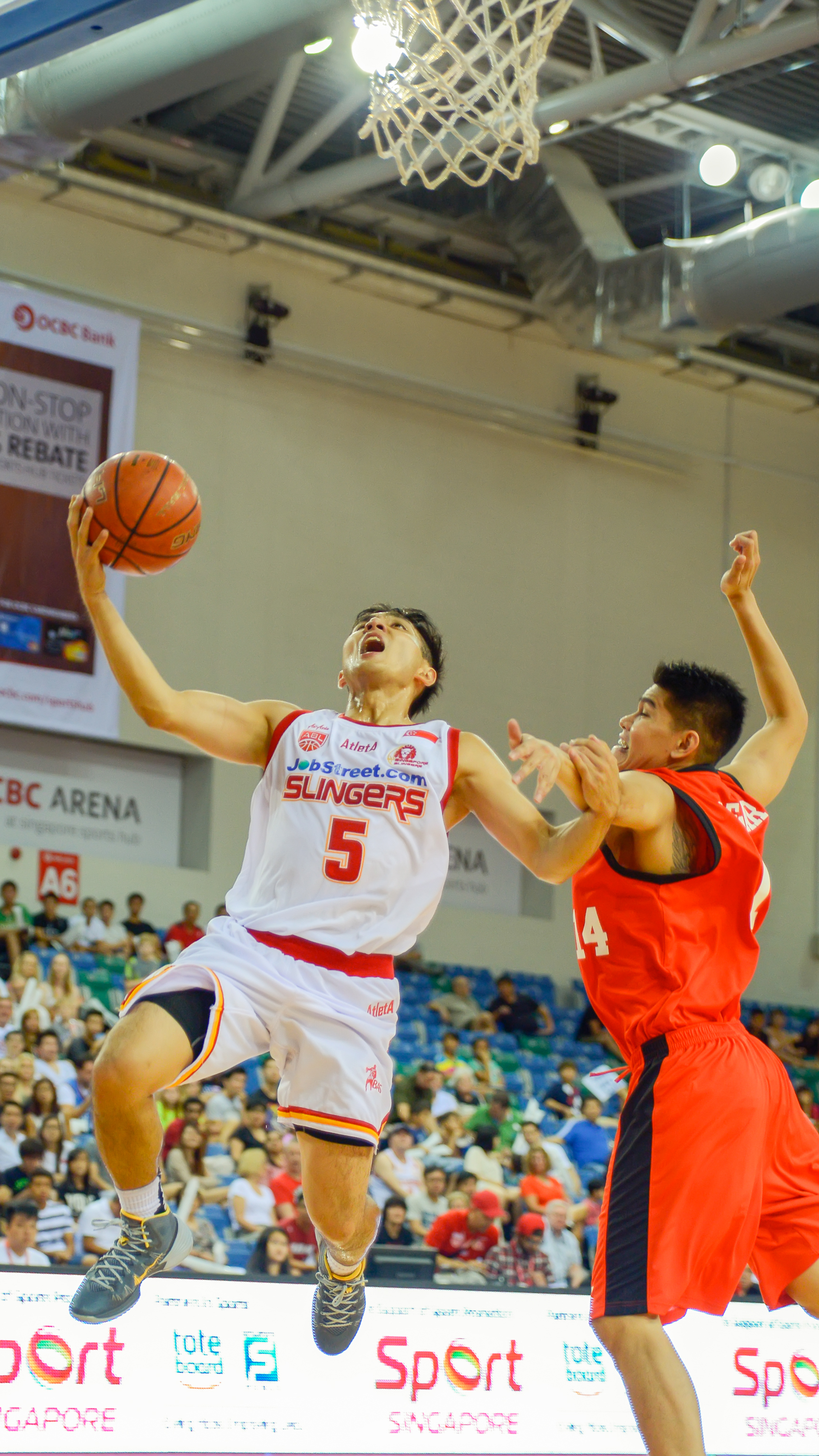 Wong Wei Long of the Singapore Slingers (in white) attempts a lay-up against the Indonesia Warriors in an Asean Basketball League game on 10 August 2014.